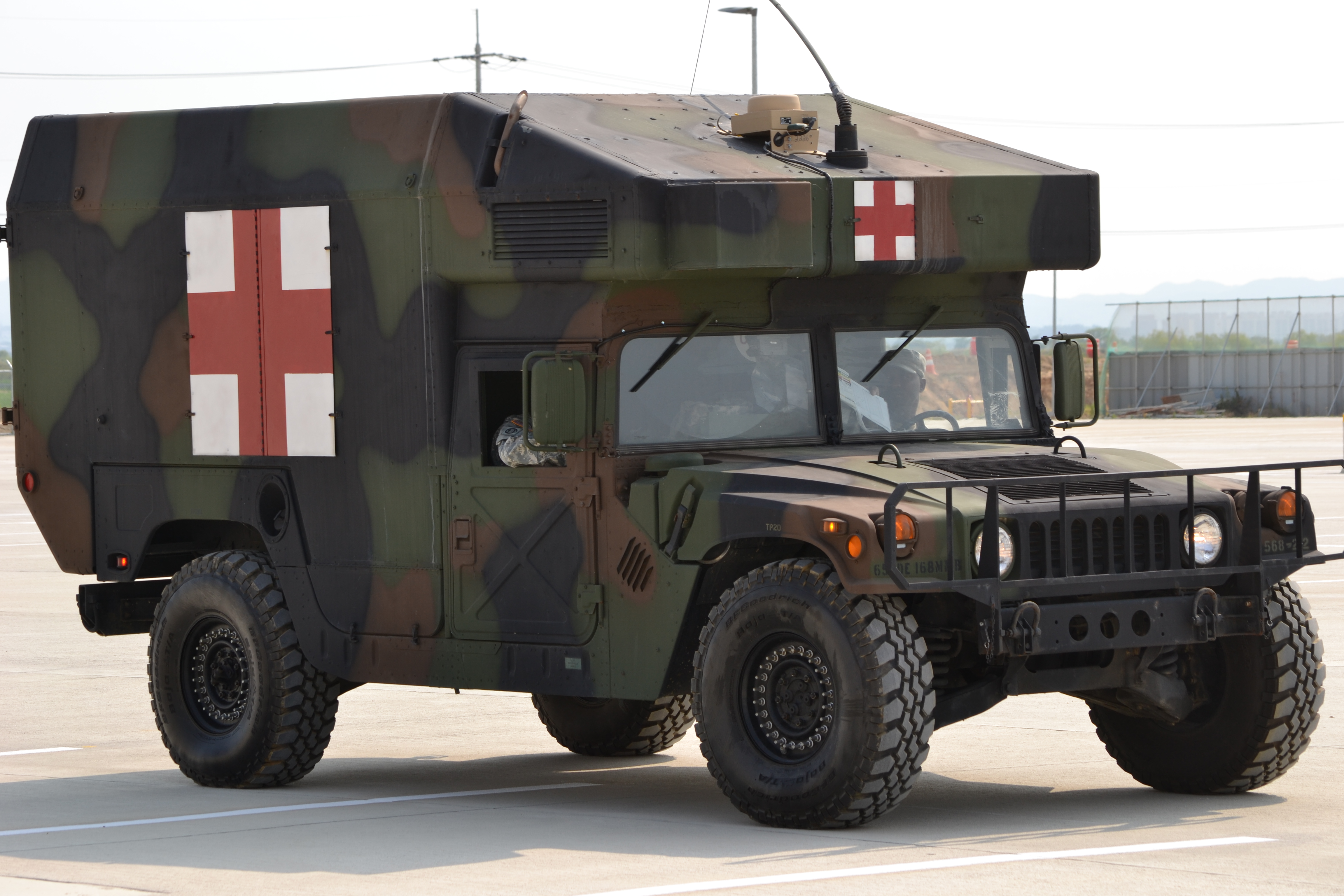 Click here to learn more about Camp Humphreys U.S. Army photos by Douglas Fraser Exercise tests emergency response capability By Cpl. Han, Jae-ho CAMP HUMPHREYS — Flames dance from a crashed helicopter as casualties cry for help, while rescuers and medical personnel speed to the scene to give aid. This fictional scenario was part of the annual Full Scale Exercise, held here June 20-22. The exercise served to evaluate emergency response abilities on post. Notional incidents included an aircraft crash, a shooter at the commissary and a hostage at the Super Gym. “This is an annual exercise required by the Department of Defense. Planning for this exercise began six months prior,” said Peter Park, installation emergency manger at the Directorate of Planning, Training, Mobilization and Security. Park served as exercise coordinator. As part of the exercise, garrison tenant units and city agencies provided support and responded to various scenarios. Units involved included the 2nd Combat Aviation Brigade, 3-2 General Support Aviation Battalion, the Directorate of Emergency Services and Pyeongtaek city emergency services. “This exercise was very realistic and it required patience from everyone involved, including dependents and civilians,” Park said. “This year’s exercise was very successful and defined our capability. It was an upgrade from last year and critical capabilities of the garrison were evaluated. I want to thank Douglas Fraser, the Antiterrorist Officer and co-lead planner for this exercise, for his support as well.”